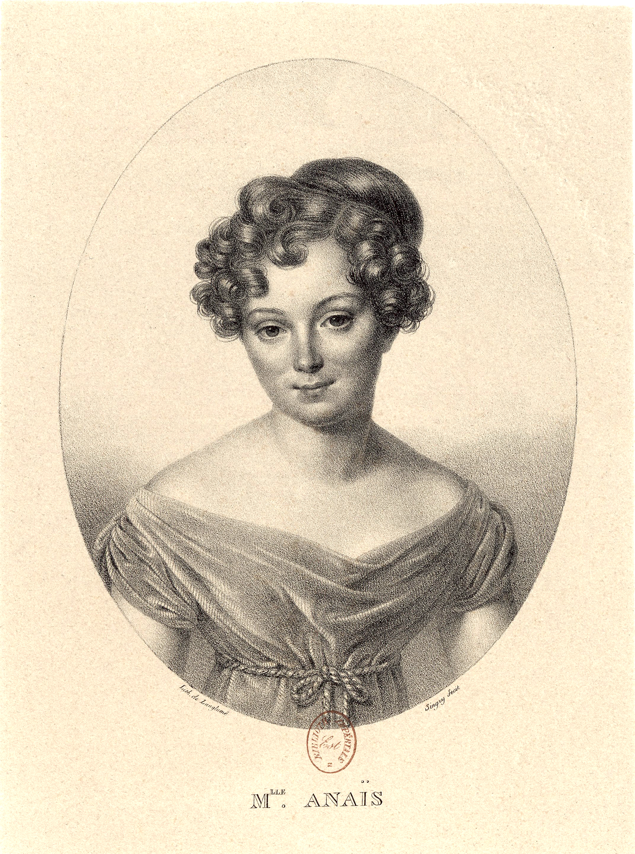 Engraving of Mademoiselle Anaïs (1802–1871), French actress by J. M. Fugere. Appartient à l’ensemble documentaire : IconEST2